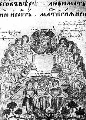 Gusli players. Illustration from a Bible dating back to 1648AD. Ukrainian folk instrument. From my book on Ukrainian folk instruments published by Bayda books in 1984, Melbourne Australia ISBN-0 908480 19 9